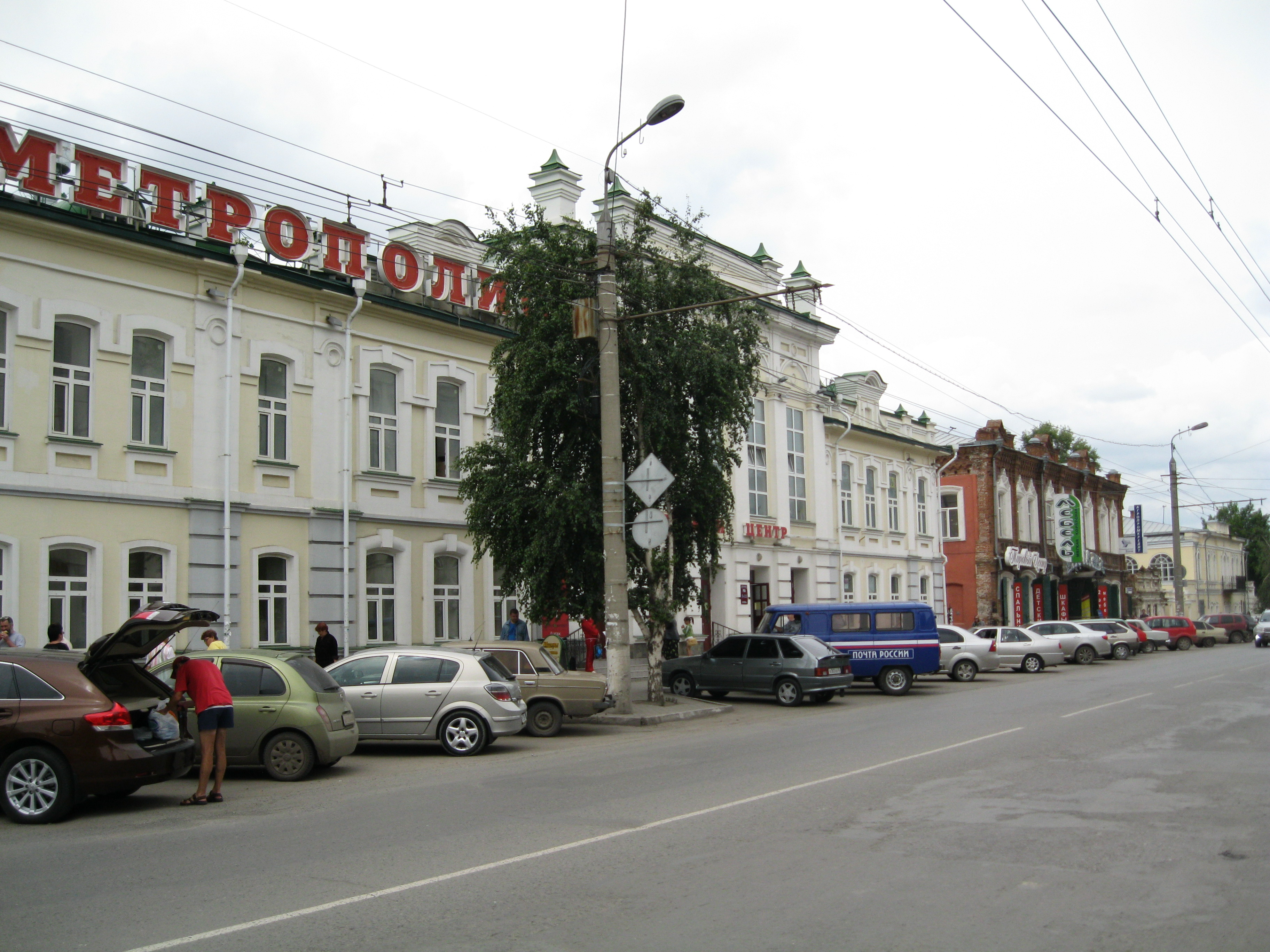 Kuybyshev (former Troitskaya) street in Kurgan, Russia